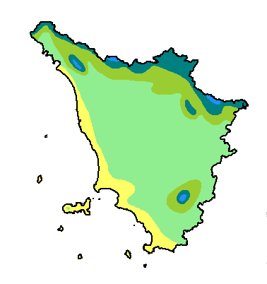 Average duration of snow cover in Tuscany (days)